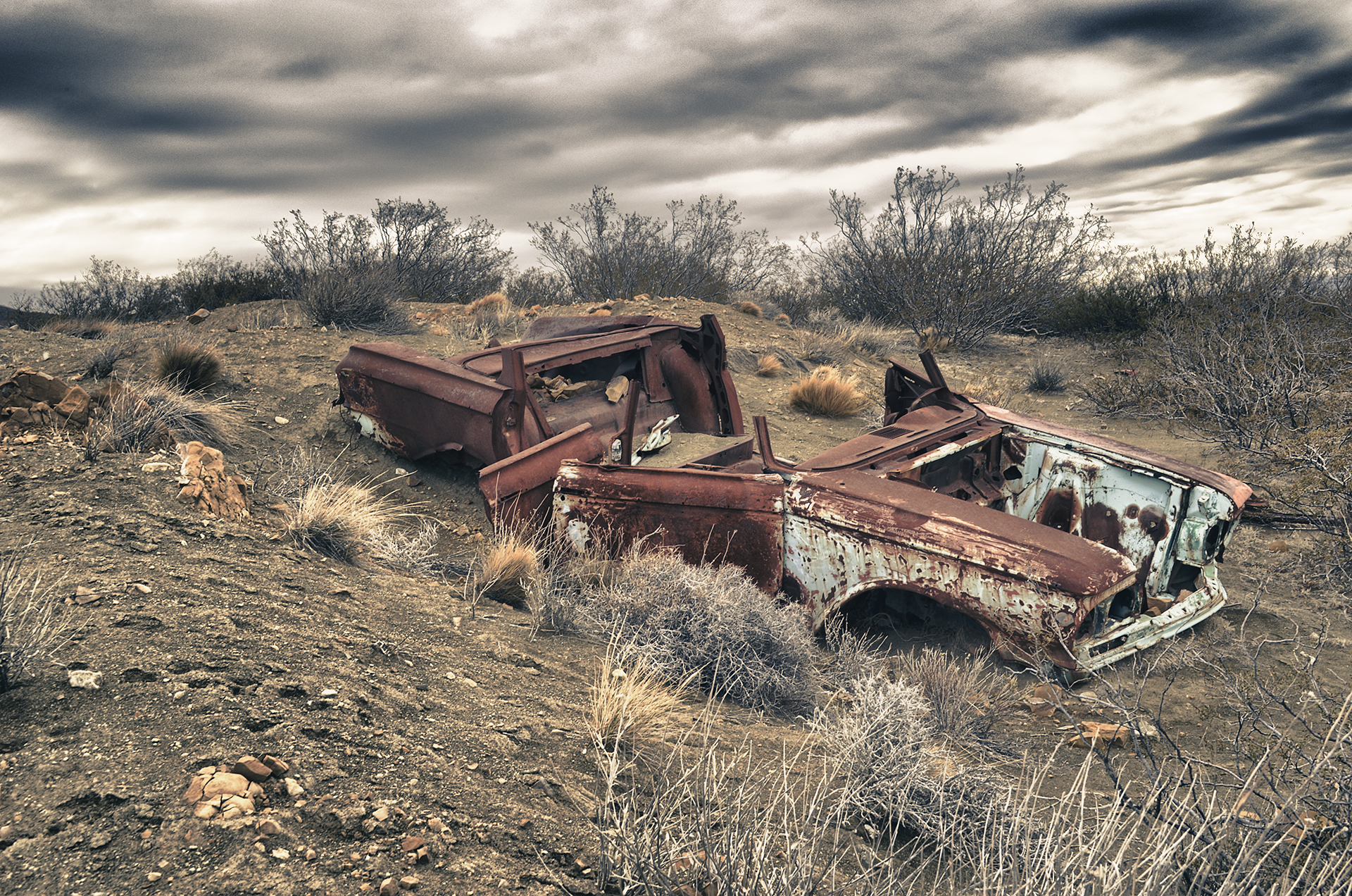 An abandoned car in Neuquen, Argentina